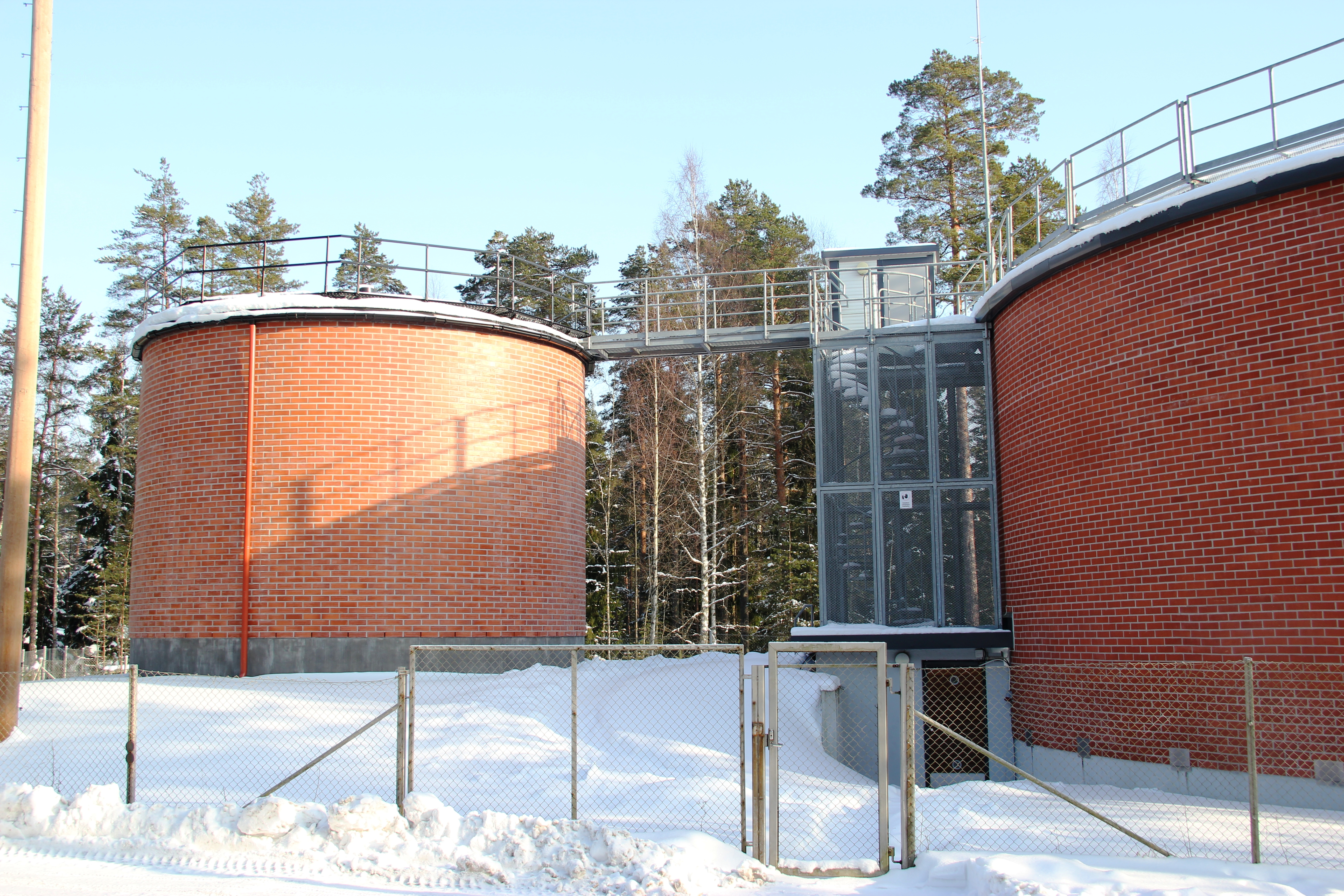 Water towers in Nummela, Vihti, Finland